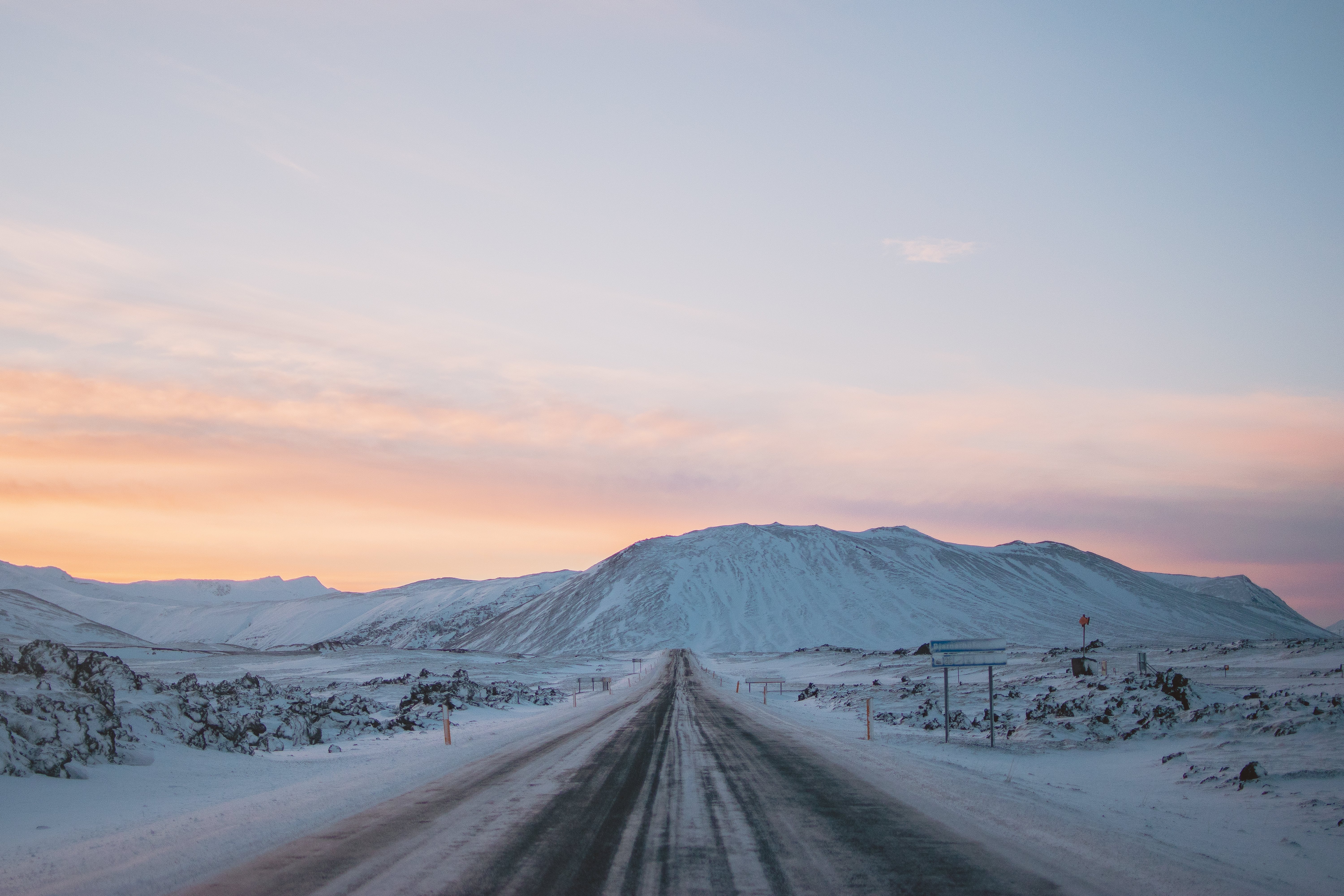 Snaefellsnes, Iceland